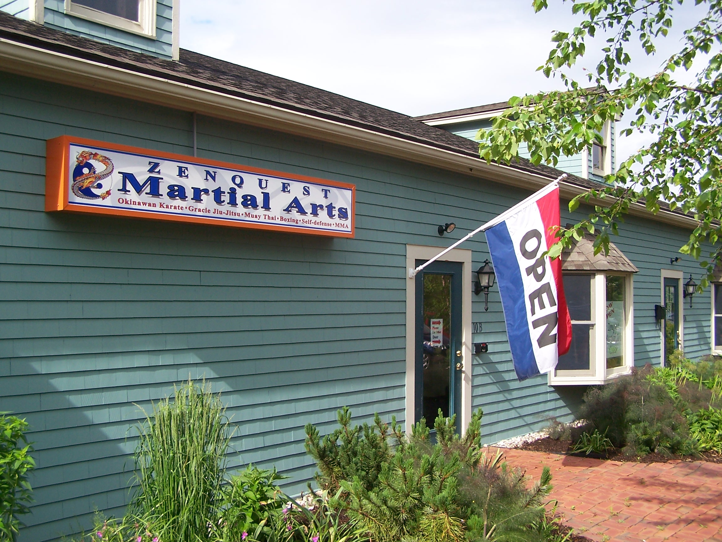 Front of the ZenQuest Martial Arts Center building in Lenox Commons, Lenox, Massachusetts. This photo depicts the main sign as well as an "open" flag.